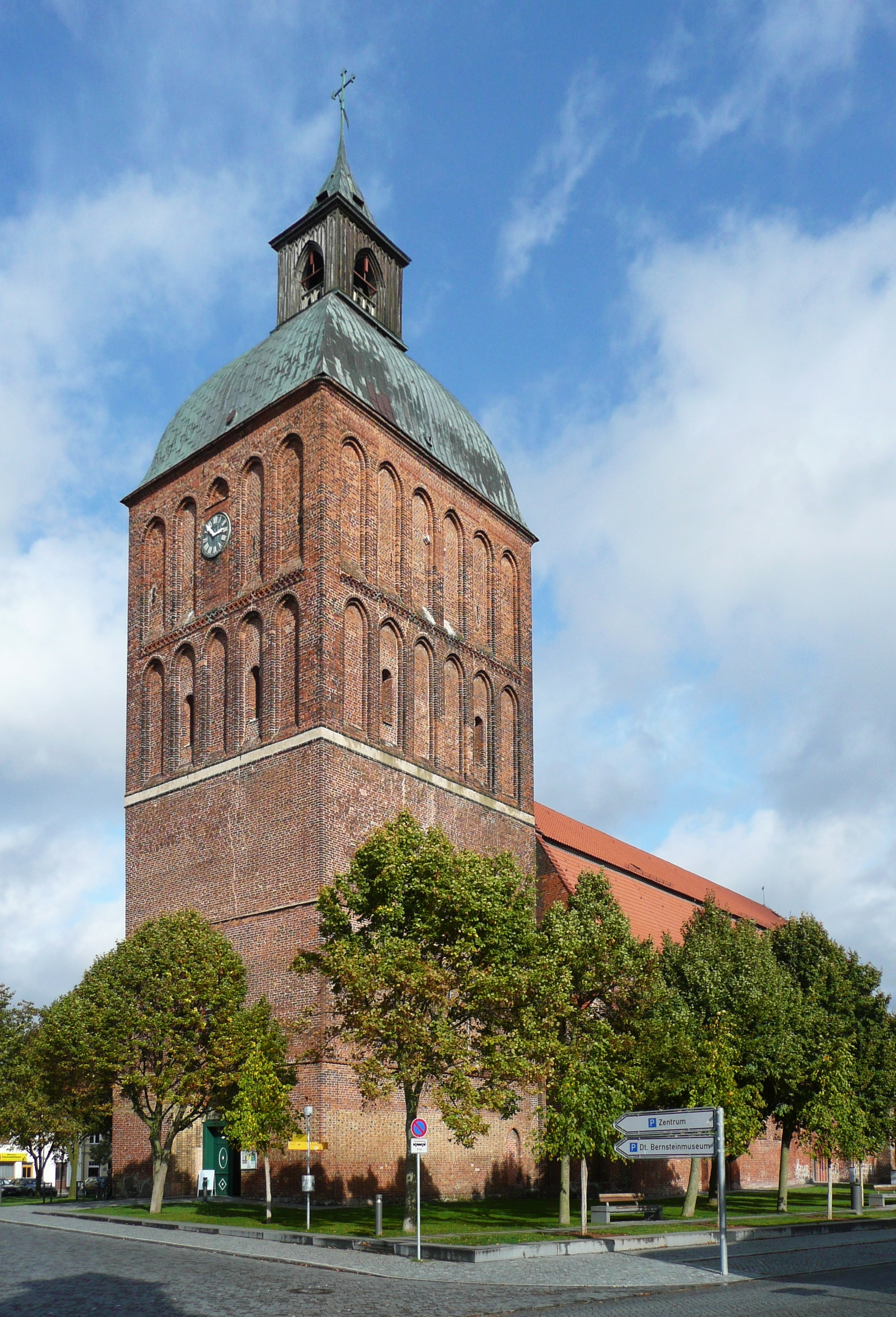 This image shows the St. Mary's Church in Ribnitz-Damgarten.